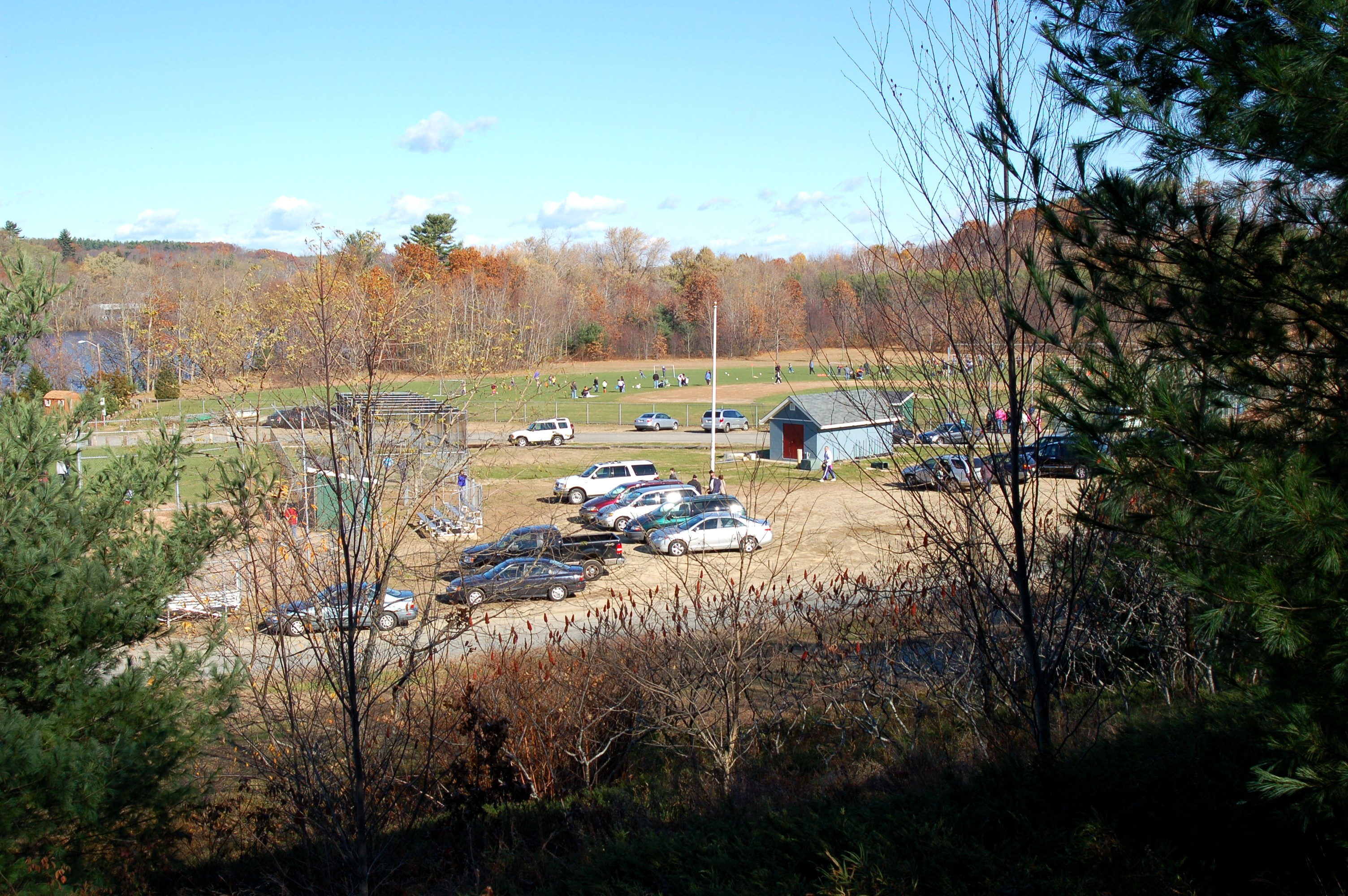 The Pines from the pines at Groveland, Massachusetts. Photo by Author, Richard B. Johnson.